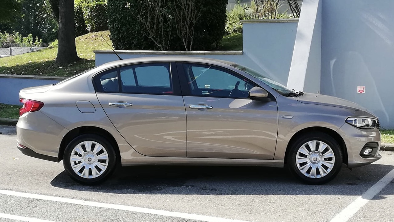 Fiat Tipo Sedan 1.3 Multijet